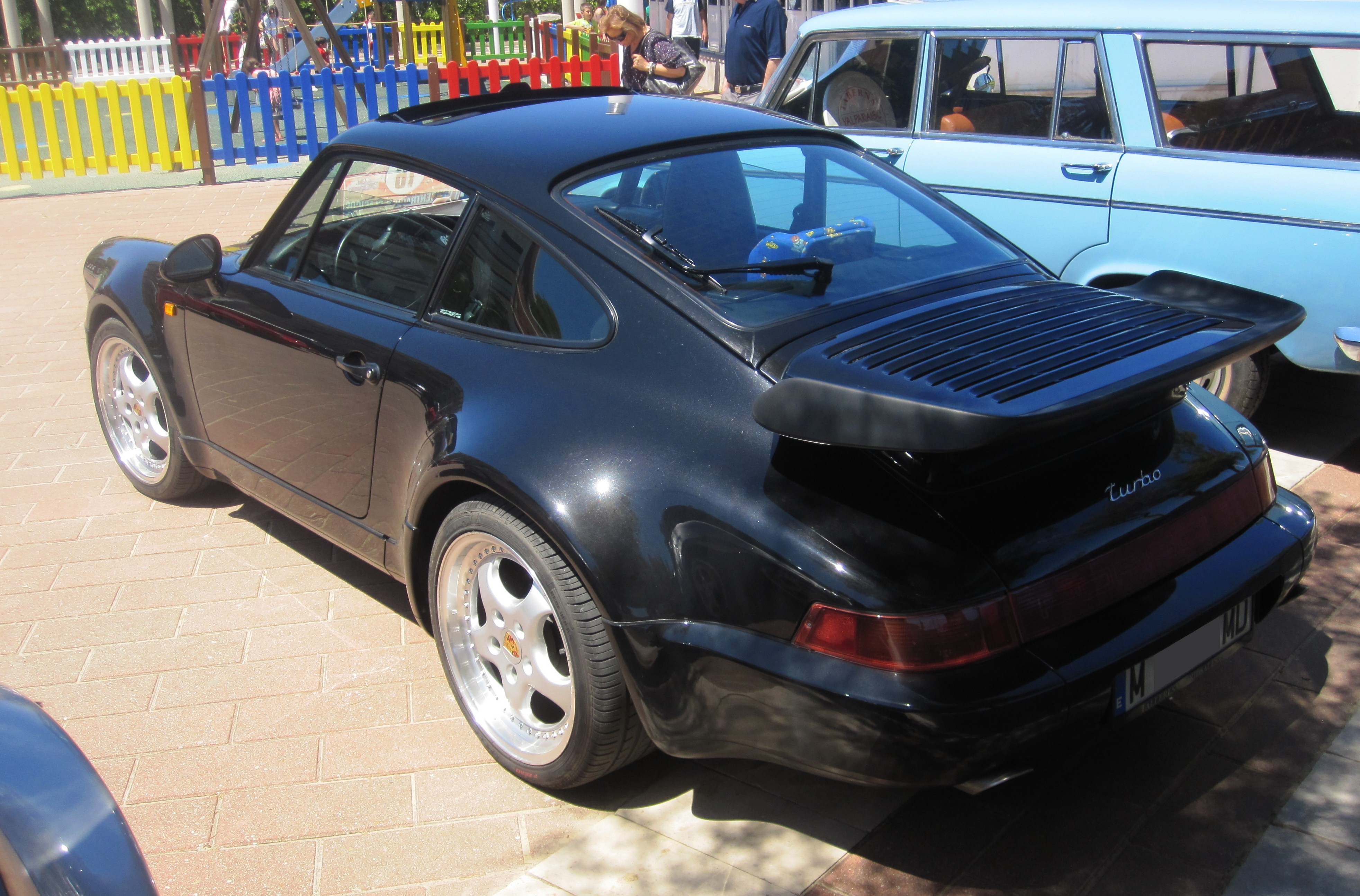 1991 plates from Madrid but seen in Suances (Cantabria).